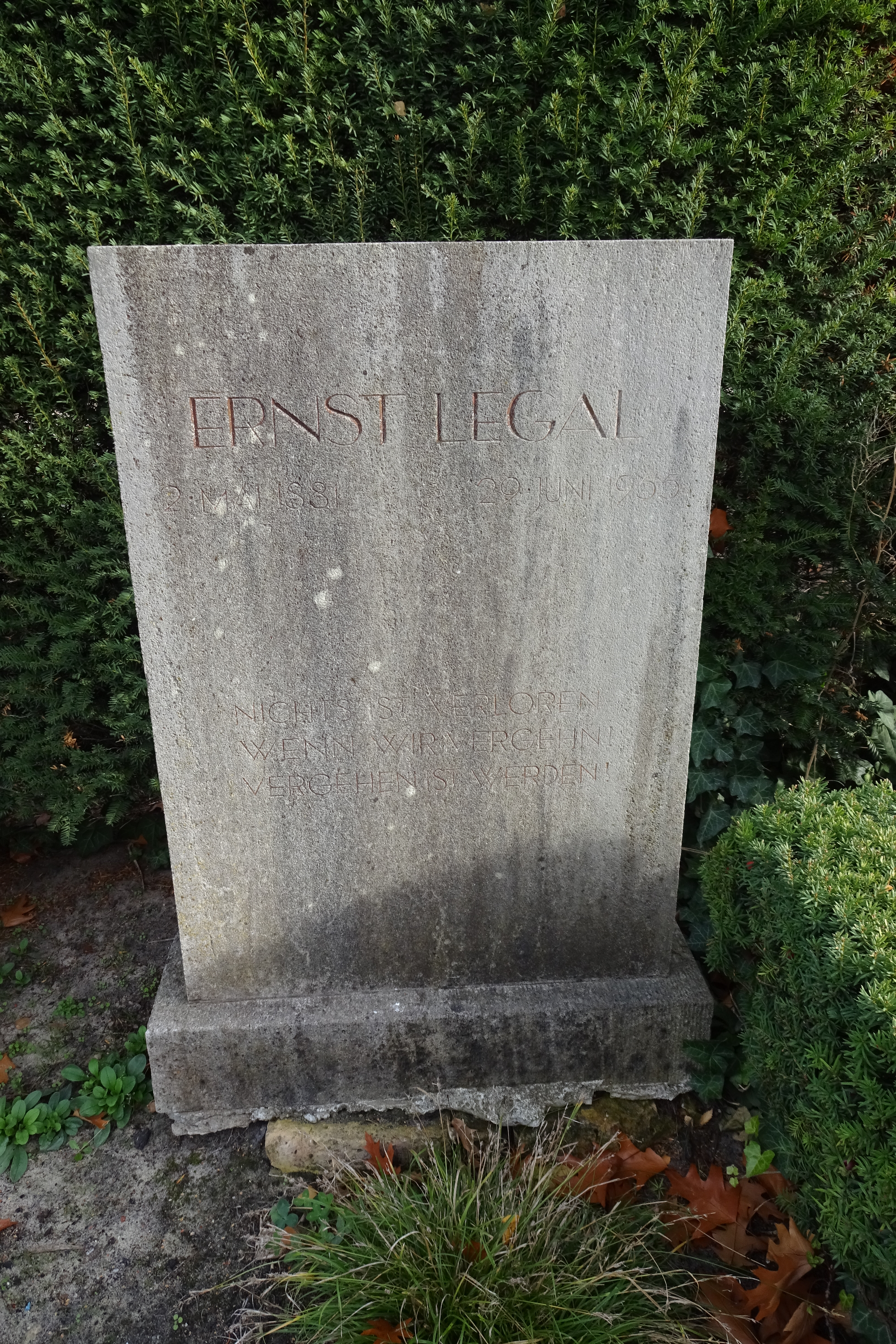 Grave of Ernst Legal in Friedhof Zehlendorf in Berlin-Zehlendorf